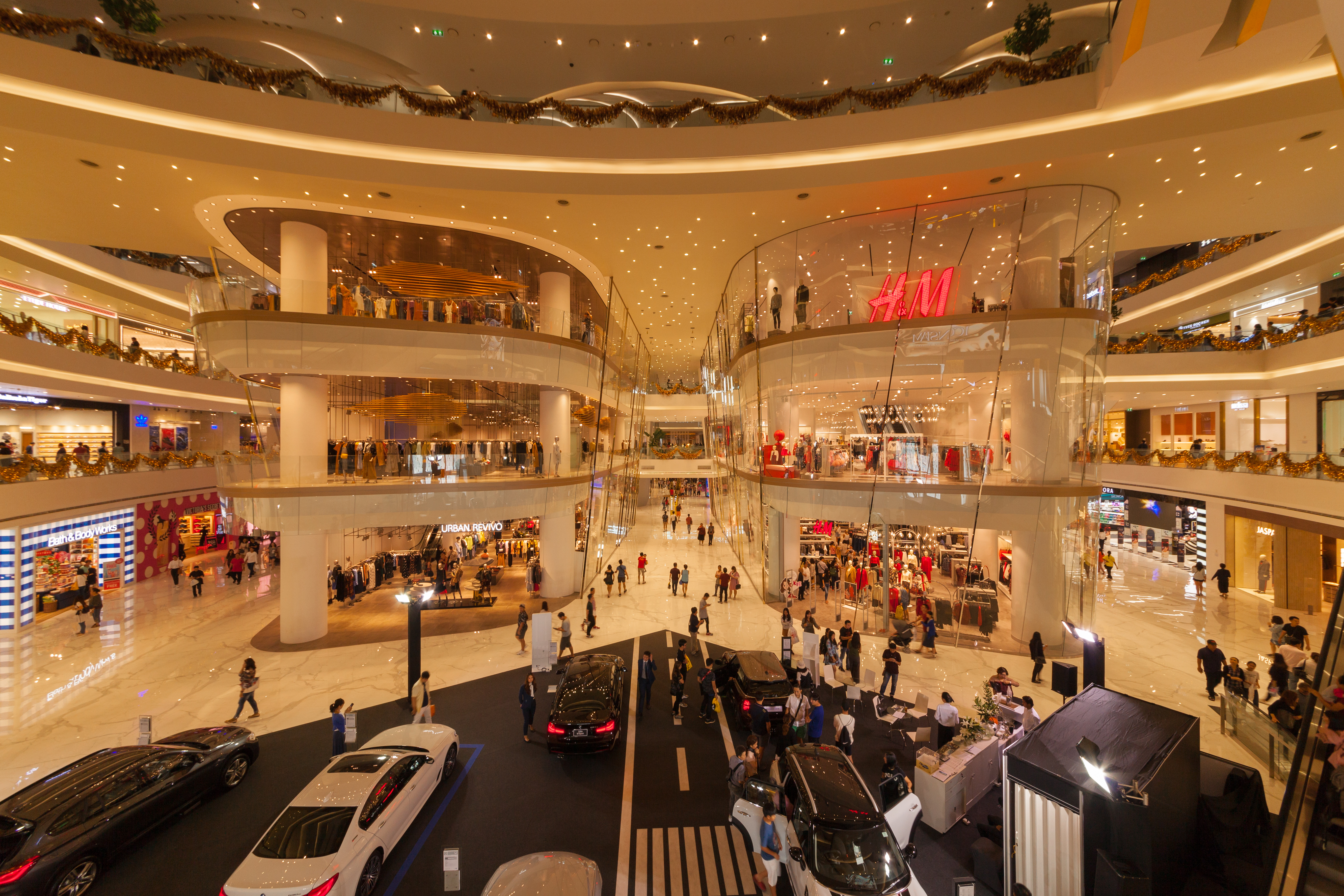 The Atrium interior of the ICONSIAM shopping mall, Bangkok.